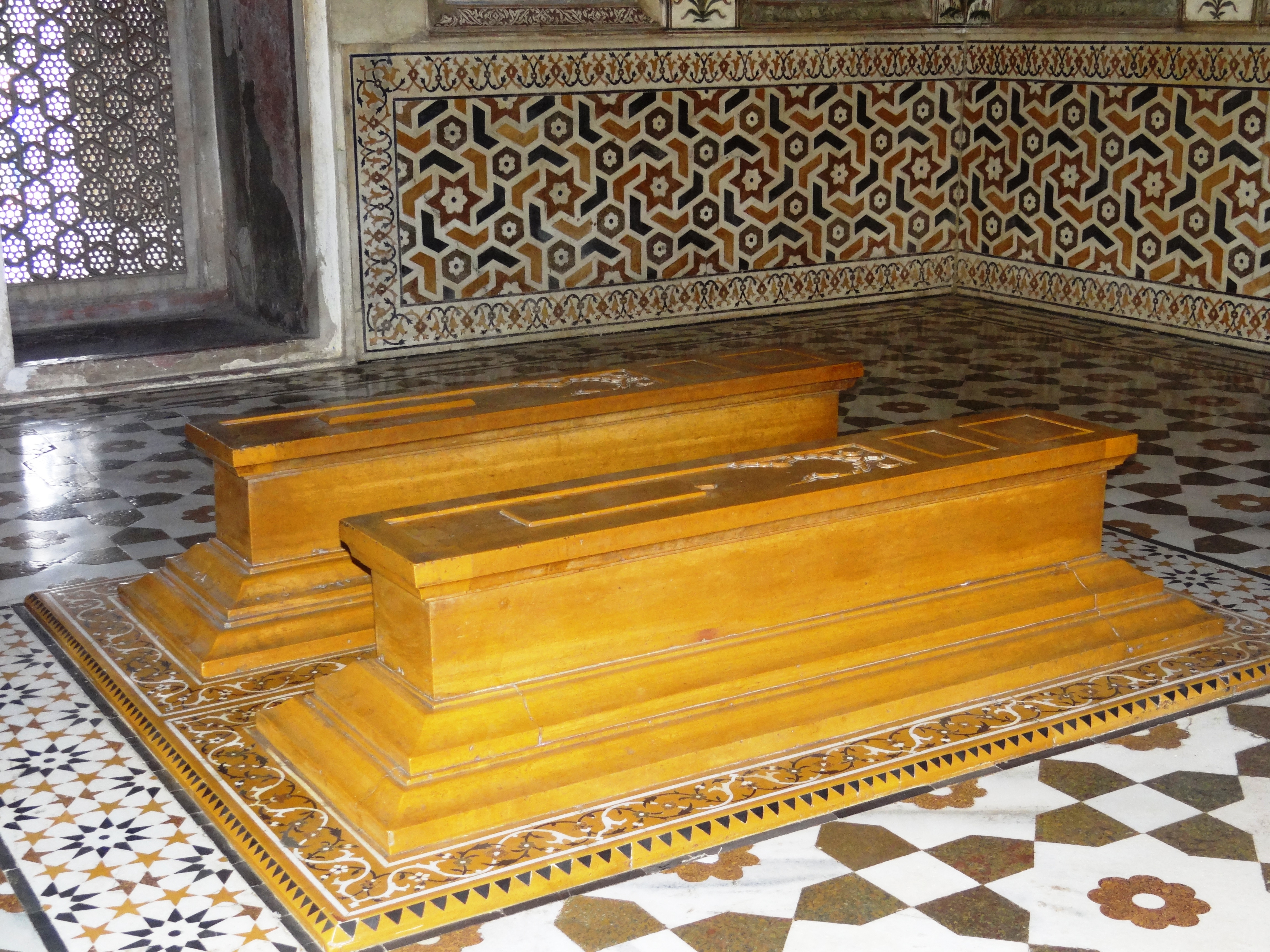 Cenotaph of Itmad-ud-Daulah's tomb